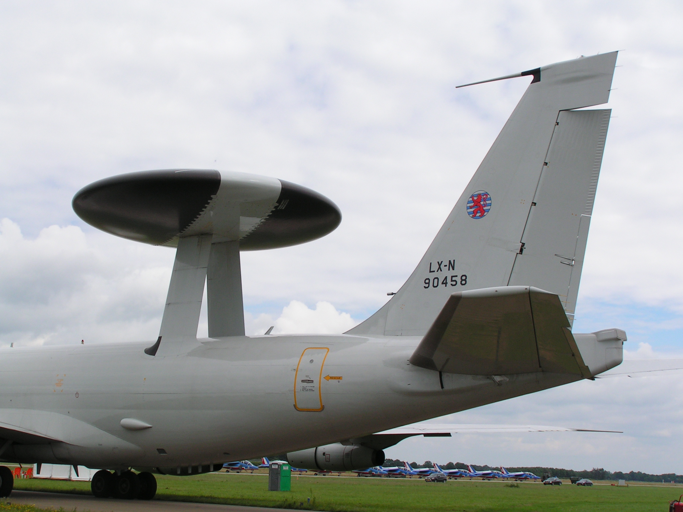 E-3 Sentry assigned to NATO. It is registered as coming from Luxembourg which does not have an air force.